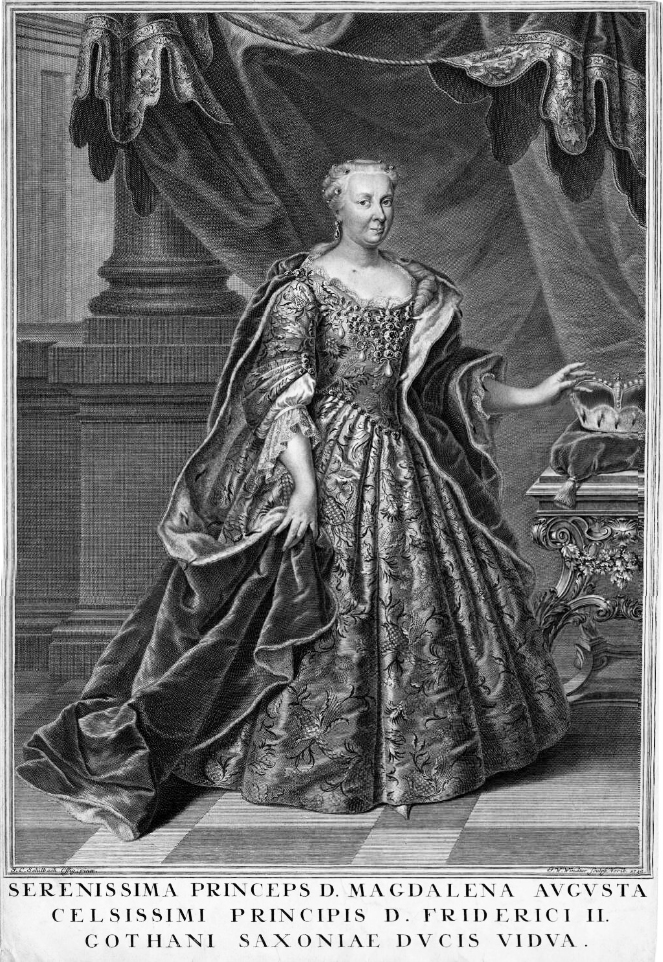 Portrait of Princess Magdalena Augusta of Anhalt-Zerbst (1679-1740), Duchess of Saxe-Gotha-Altenburg